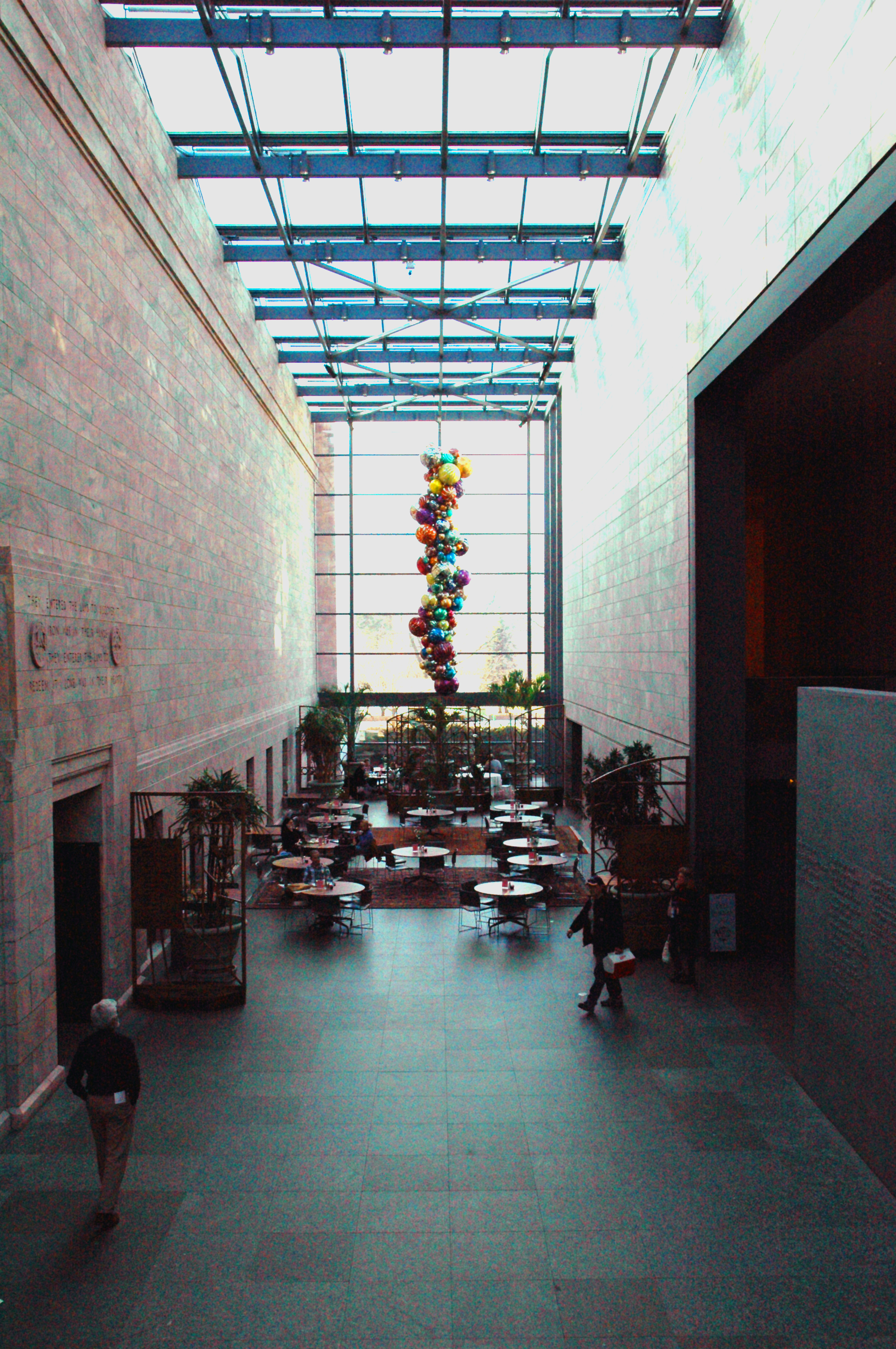 The atrium of Joslyn Art Museum in Omaha, Nebraska, looking south from the balcony; Dale Chihuly's Glowing Gemstone Polyvitro Chandelier is hanging above the cafe